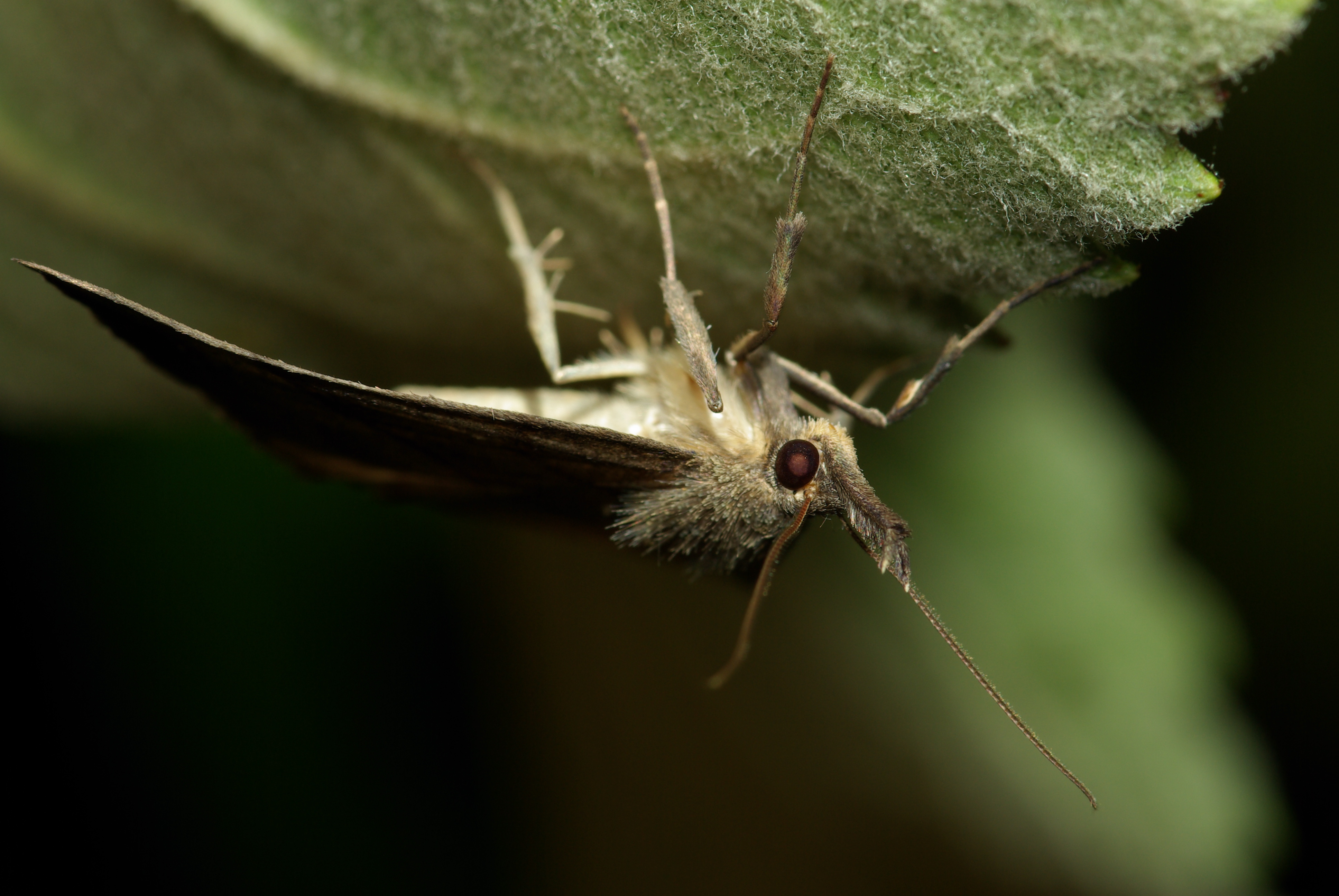 A Laspeyria flexula taken (on night) in Vendée, French.